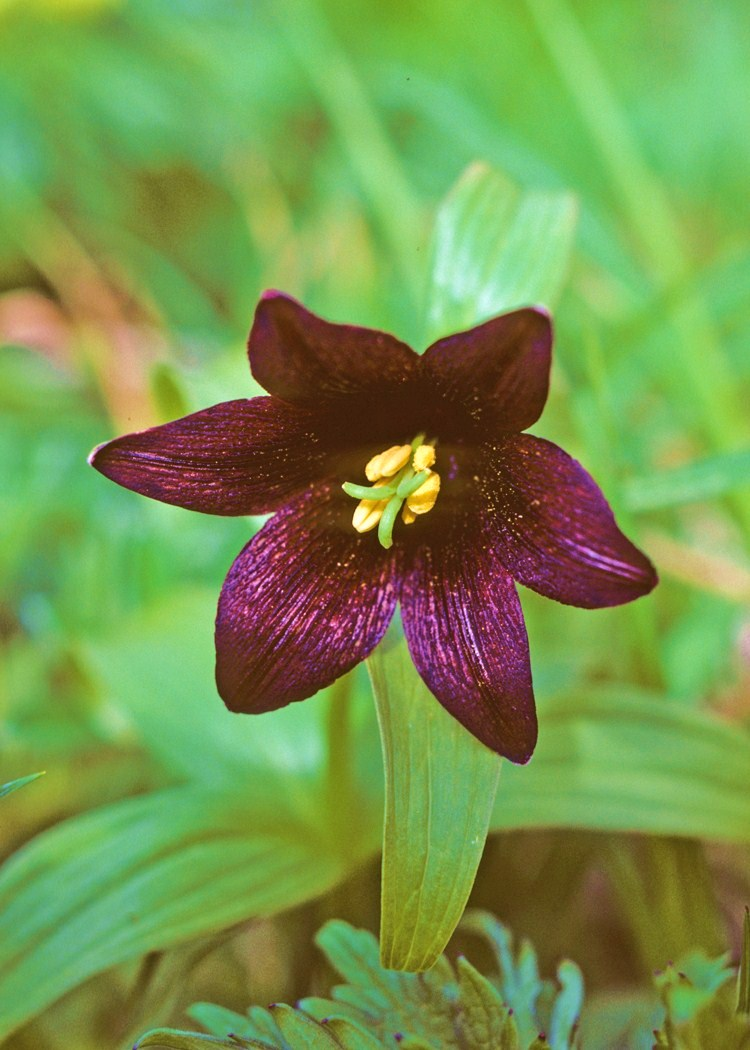 Fritillaria camschatcensis - Chocolate Lily[1]